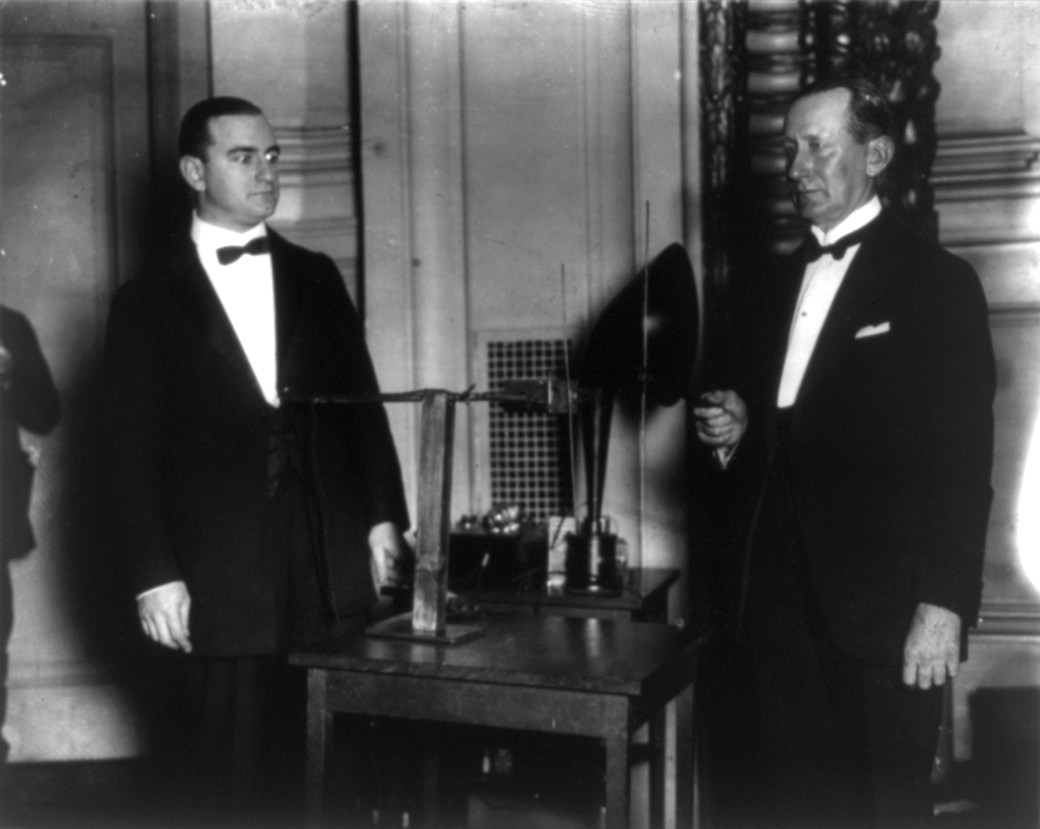 American electrical engineer Alfred Norton Goldsmith (1888-1974) with Italian Nobel laureate Guglielmo Marconi (1874-1937)